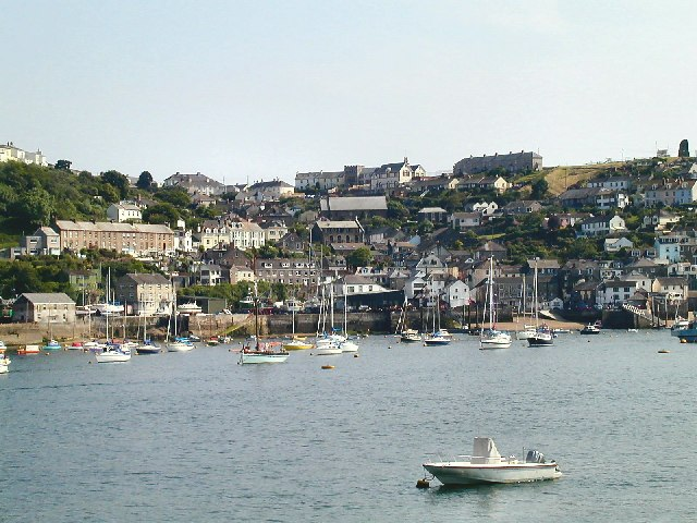 Polruan.